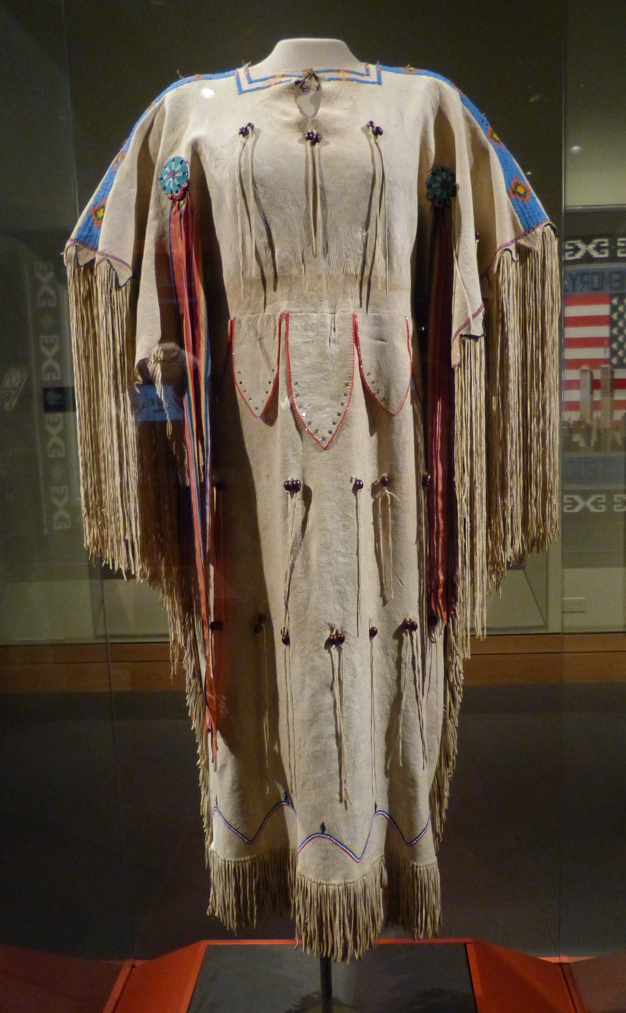 National Cowboy & Western Heritage Museum ( Oklahoma City ). Arapaho dress ( ca.1940 ), made of tanned leather, silk ribbon and glass beats. Joe Grandee Collection No. 1991.01.0814